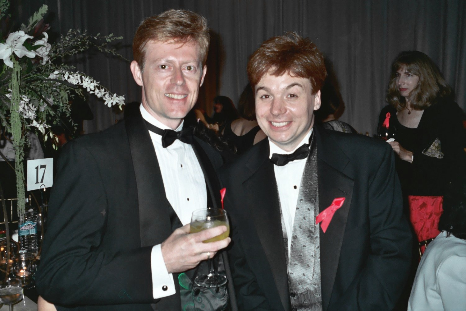 1994 Emmy Awards NOTE: Permission granted to copy, publish, broadcast or post any of my photos, but please credit "photo by Alan Light" if you can. Thanks. Scanned from the original 35MM film negative.